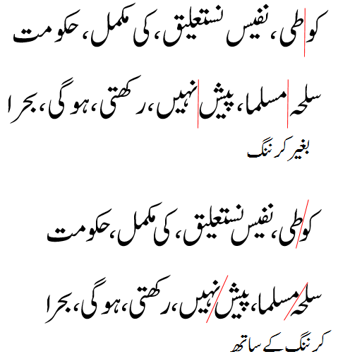 This is an example of Nastaliq font's kernning.